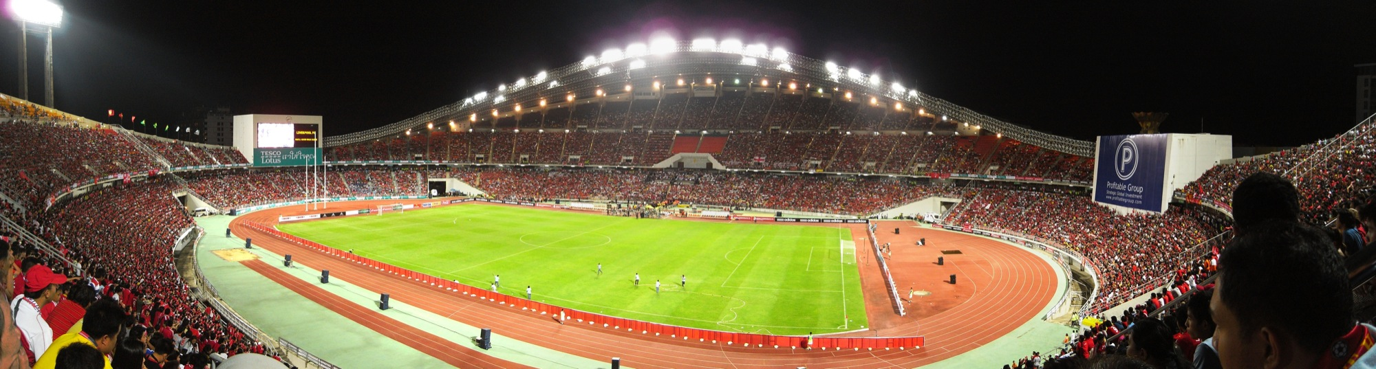 Match between Thailand National Team vs. Liverpool FC